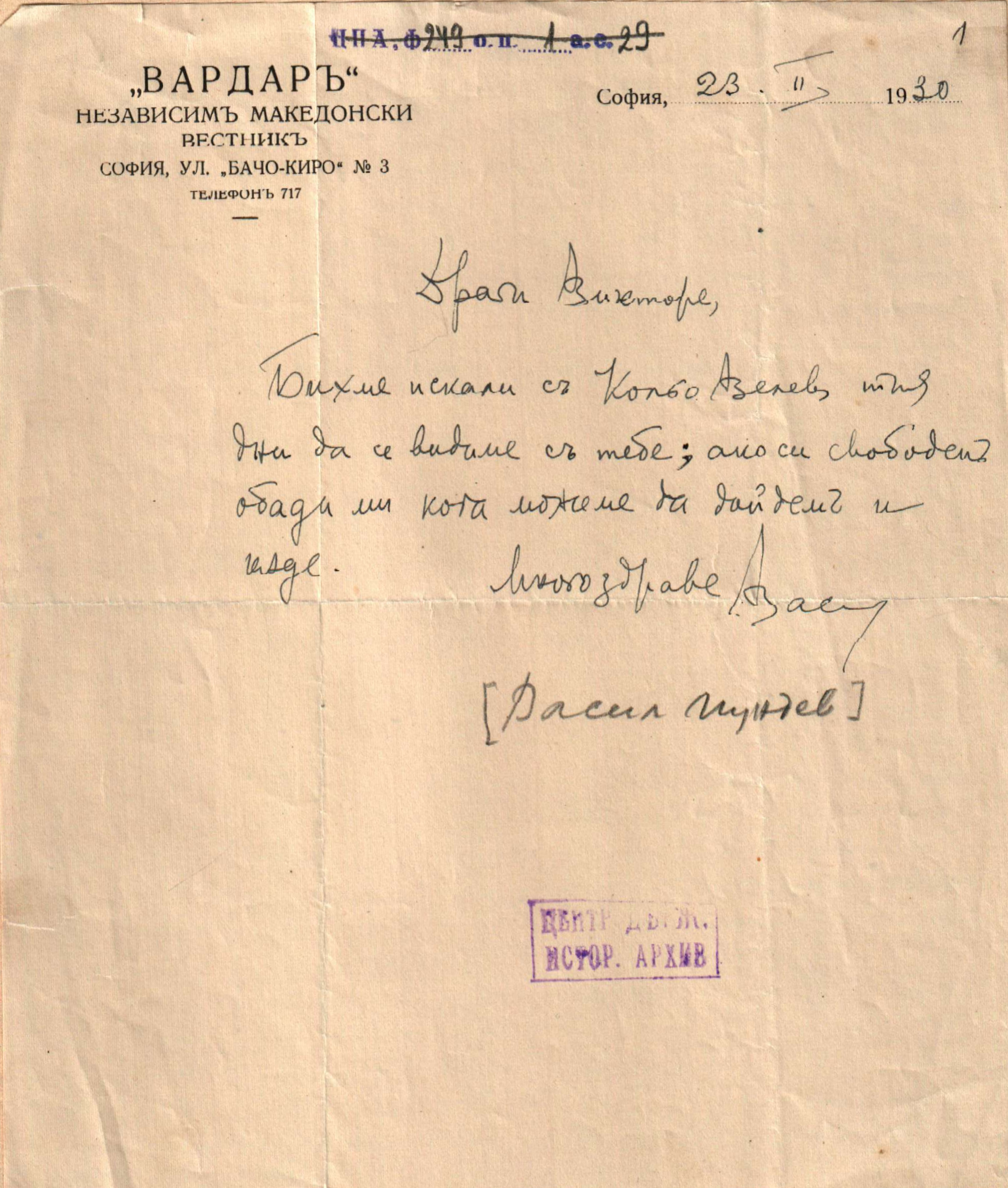 Letter from Vasil Pundev to Georgi Pophristov for a meeting of Pundev, Pophristov and Nikola Velev.